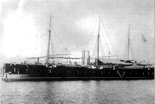 Italian broadside ironclad Formidabile, launched 1861